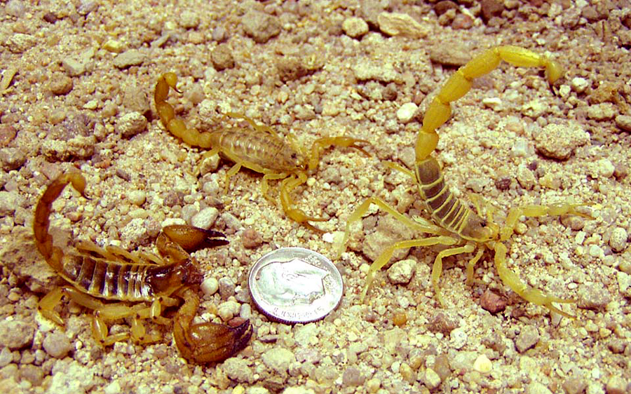 Three of the most common scorpions found on TALLIL AIR BASE, Iraq: left – Scorpio maurus; top – Mesobuthus eupeus; right – Odontobuthus doriae showing aggressive behaviour.